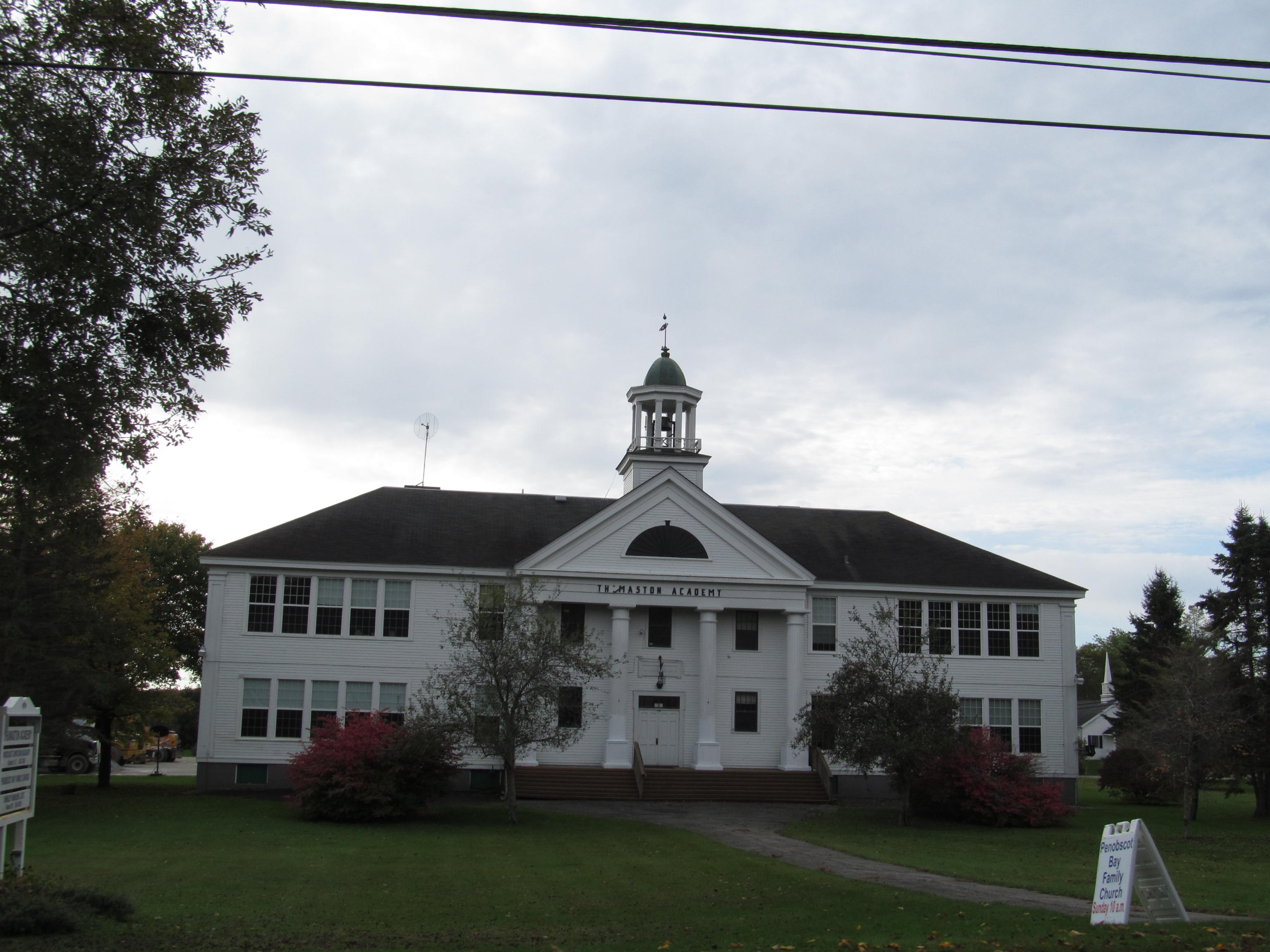 The Thomaston Academy building in Thomaston, Maine. Now houses the public library; part of the Thomaston Historic District.